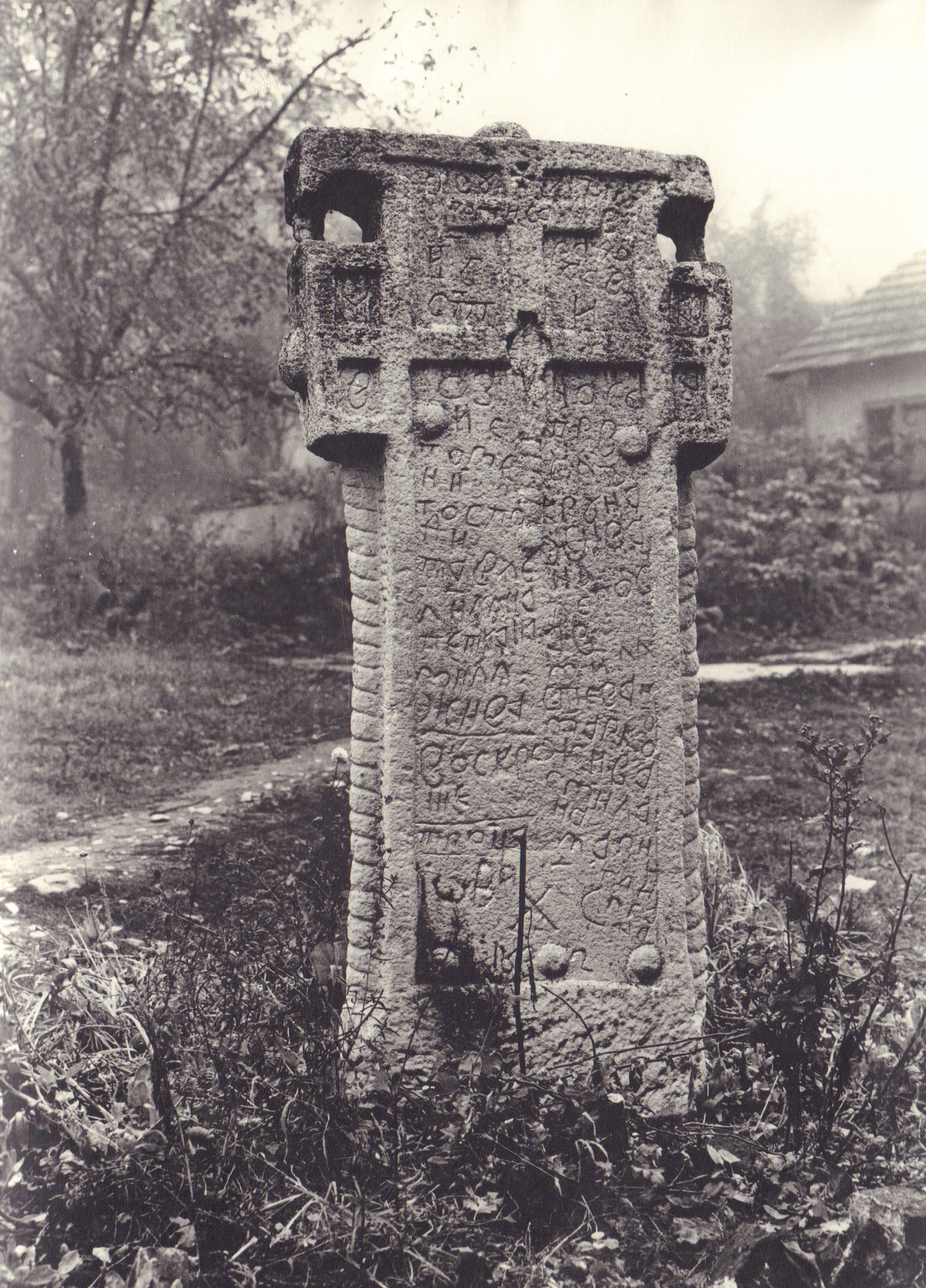 An old stone monument in Sumrakovac, Boljevac